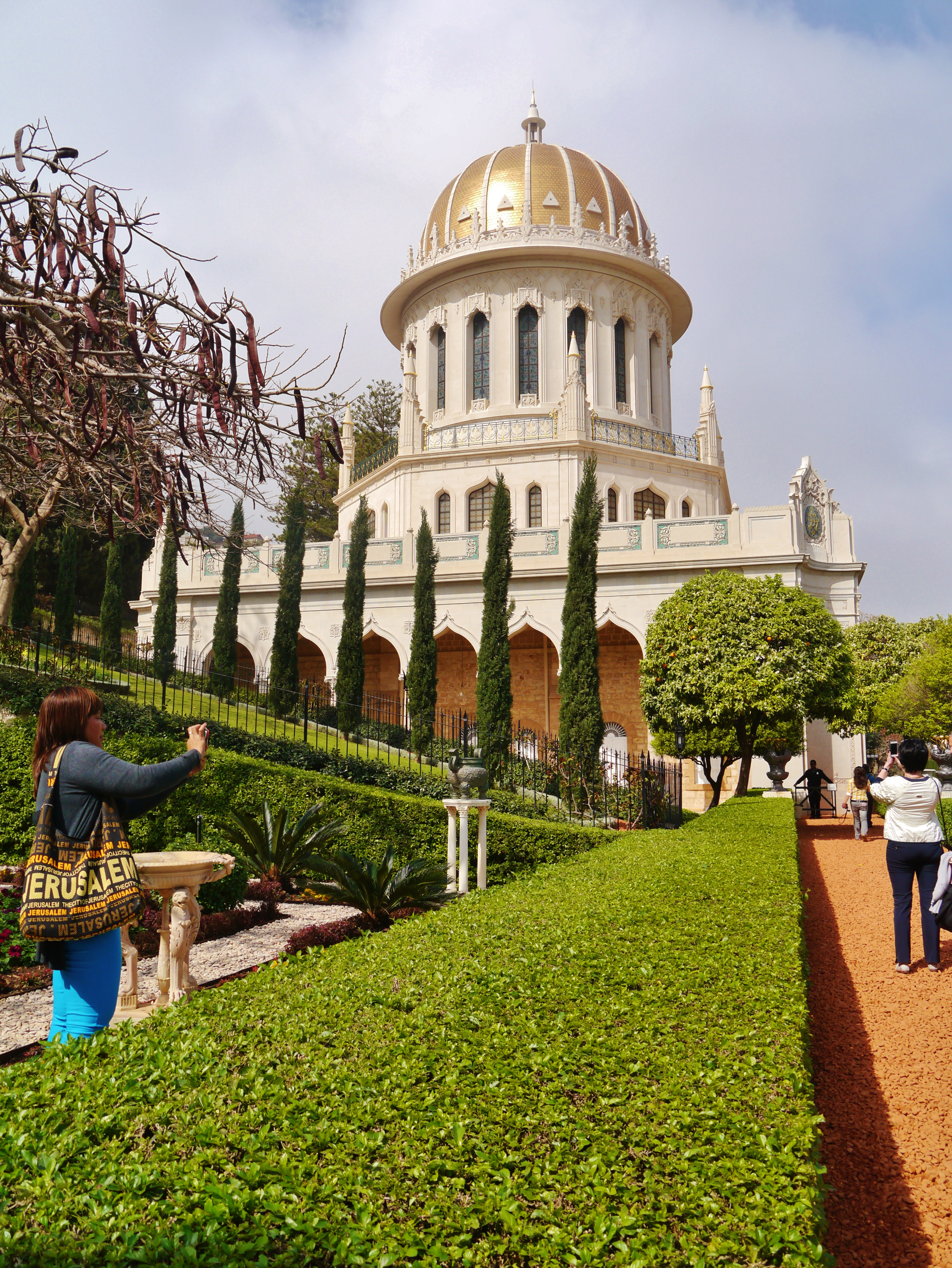 Shrine of the Báb, Haifa, Israel